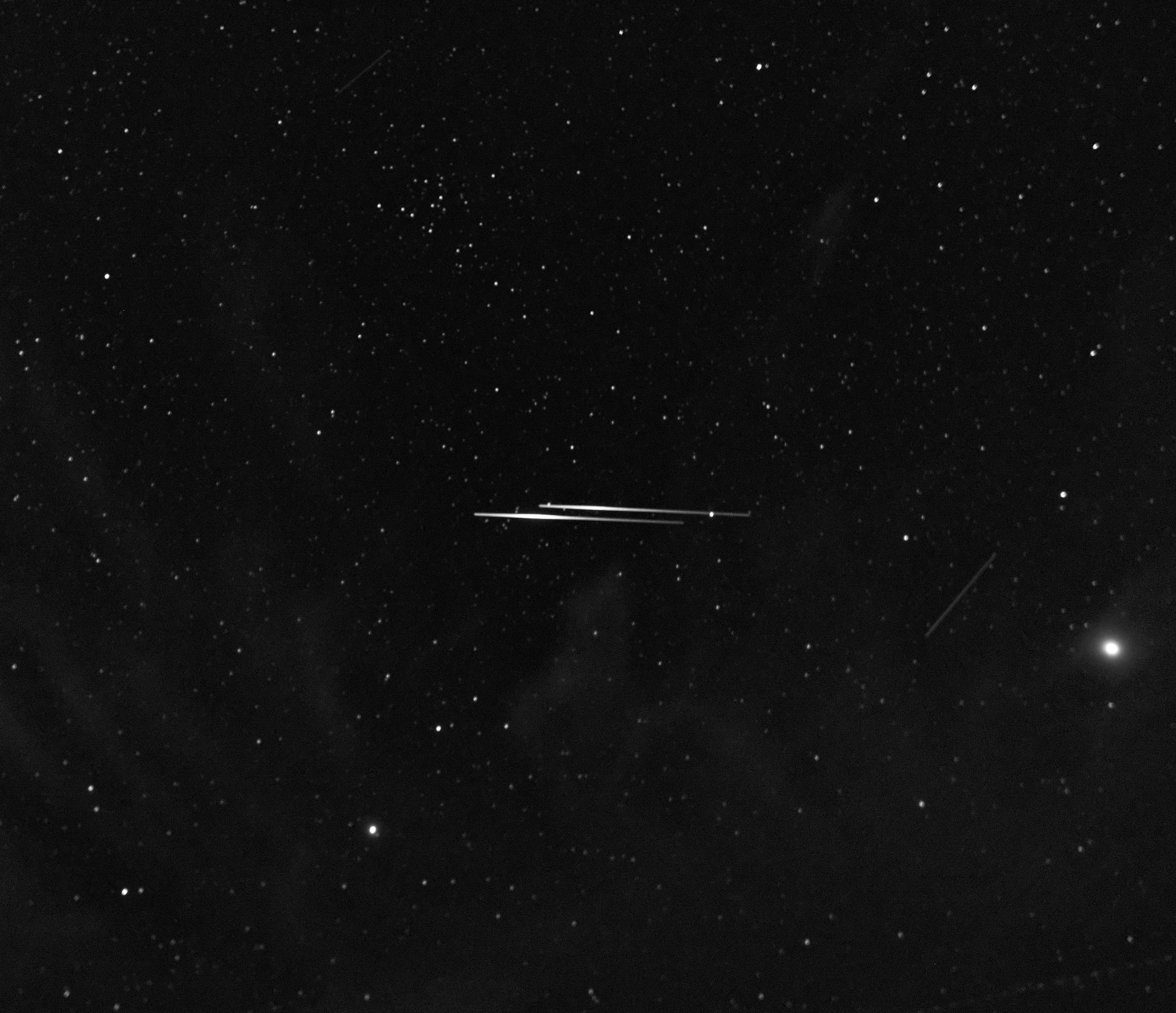 Iridium satellite #6 (upper) and its replacement, #51, flaring 6 seconds apart in a 21.4-second exposure. The bright object on the right is Jupiter. Arcturus is the bright star at about the 7 o'clock position. Spica is just out of view in the lower right. The satellites were moving left to right. The left end of the trails is in Coma Berenices and the right end is in Virgo (near Virgo Epsilon, Vindemiatrix, I think - see Astrometry).